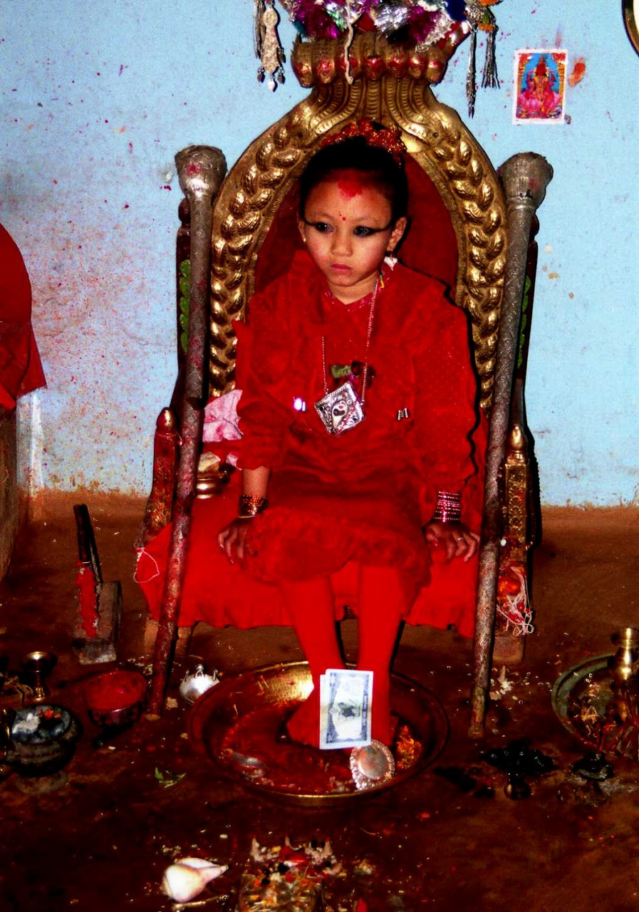 A girl is worshiped as the living goddess, a ritual among Hindus in Nepal